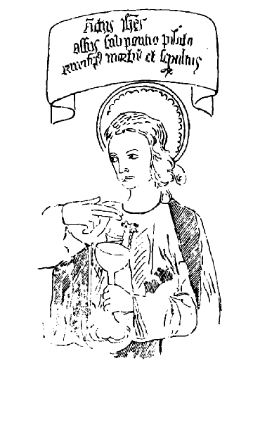 Fresco in the old church Saint-Jean in Cursan. The church was destroyed in 1870 and this is the only fresco (15th century) that could be copied. It shows John the Apostle (with chalice), over his head is the inscription "Sanctus Joannes; passus sub Pontio Pilato, crucifixus mortuu et sepultus est."